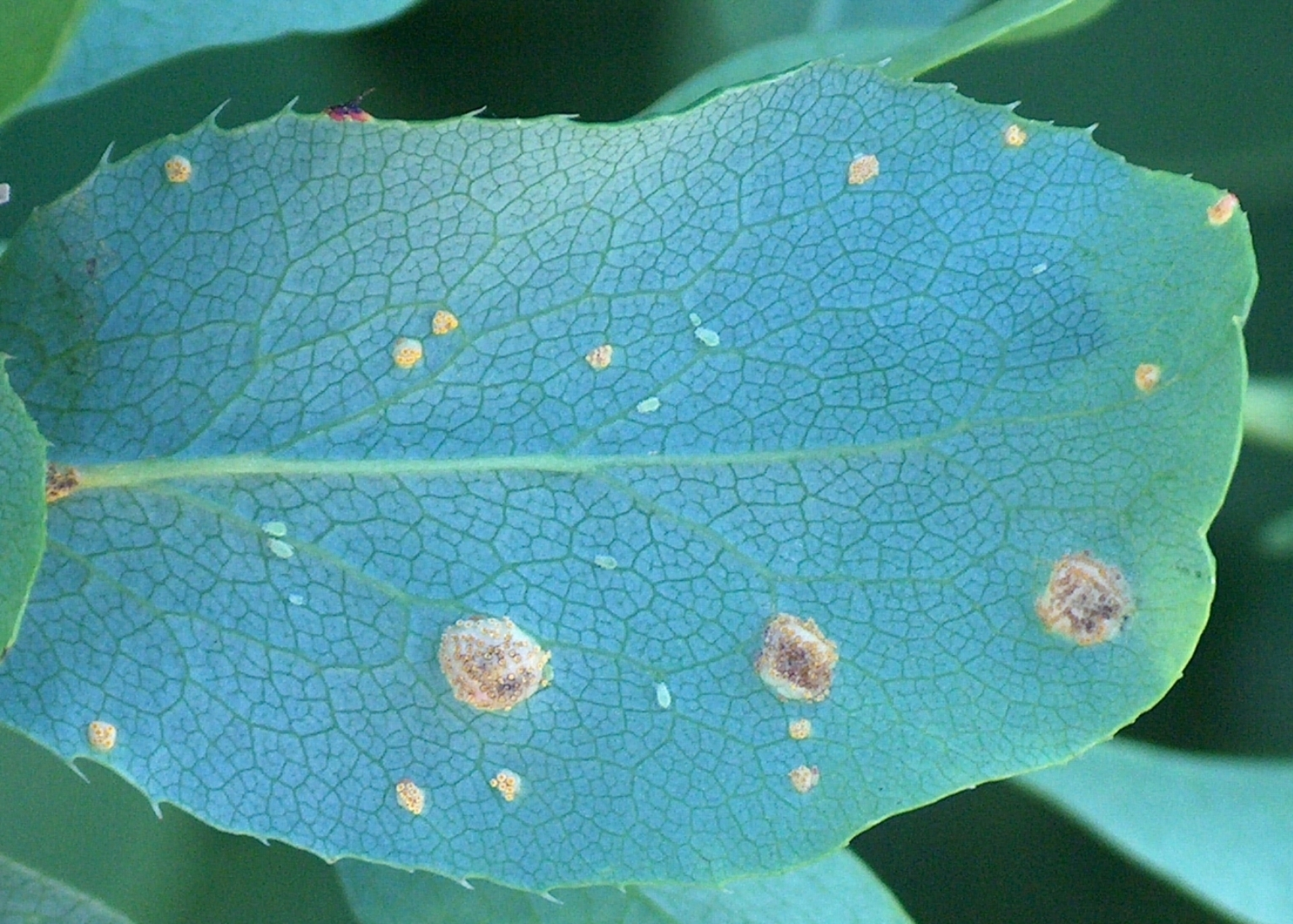 Aecidia of the Wheat Stem Rust (Puccinia graminis) on the ventral side of the sides of Barberry (Berberis vulgaris)